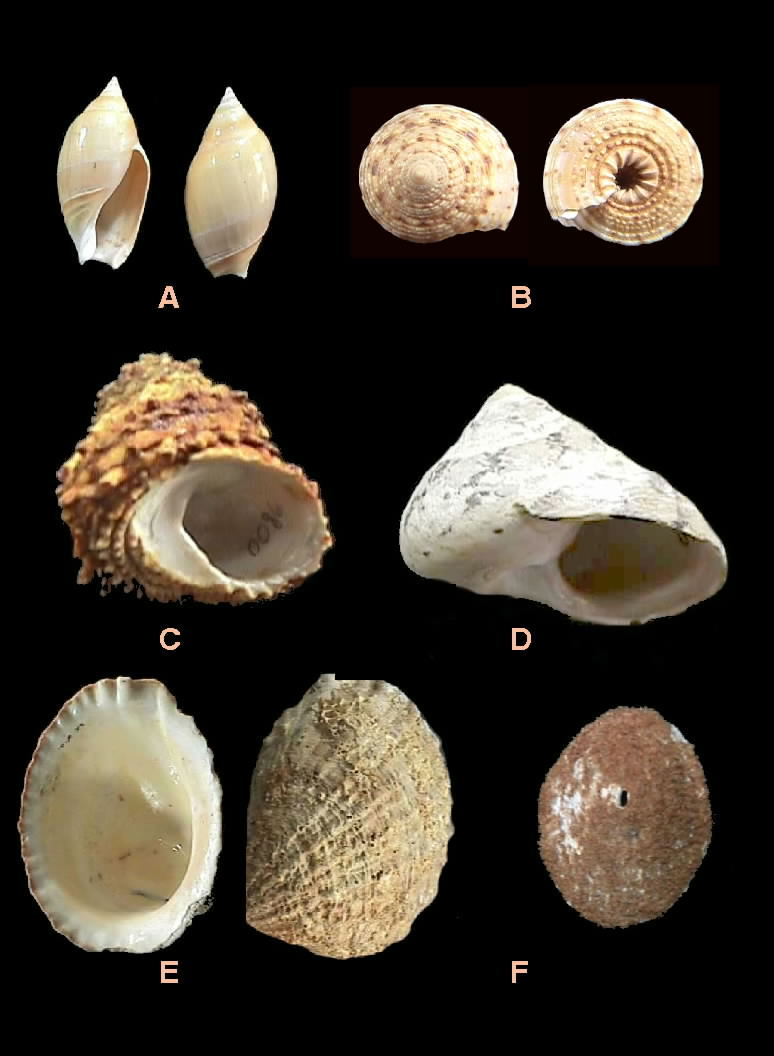 Plate with various shells of gastropods.